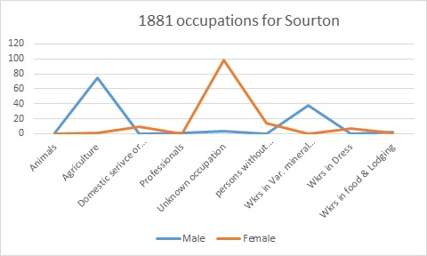 A graph showing the different occupations of Male and Females in Sourton in 1881